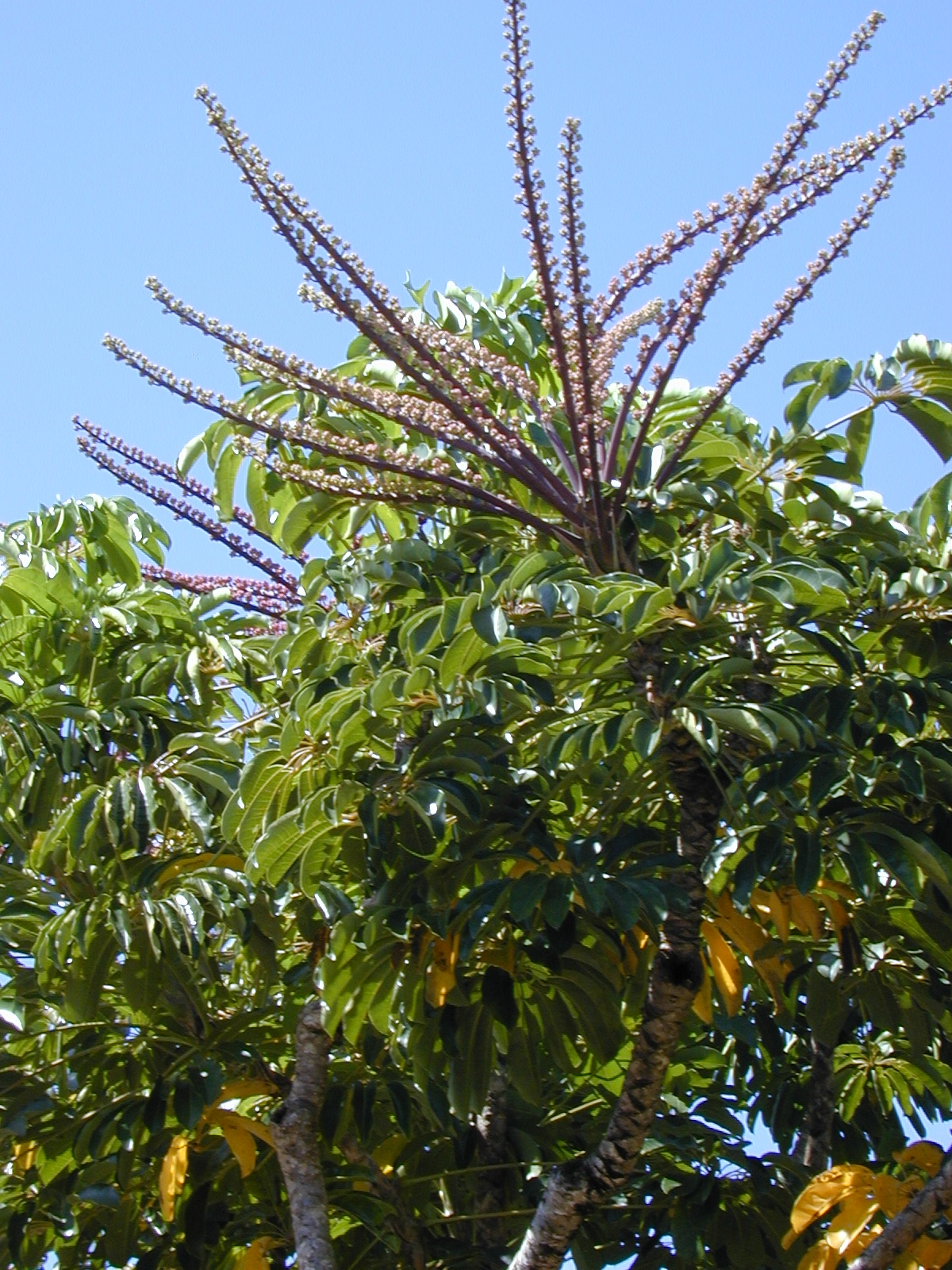 Schefflera actinophylla (flowers). Location: Maui, Haiku